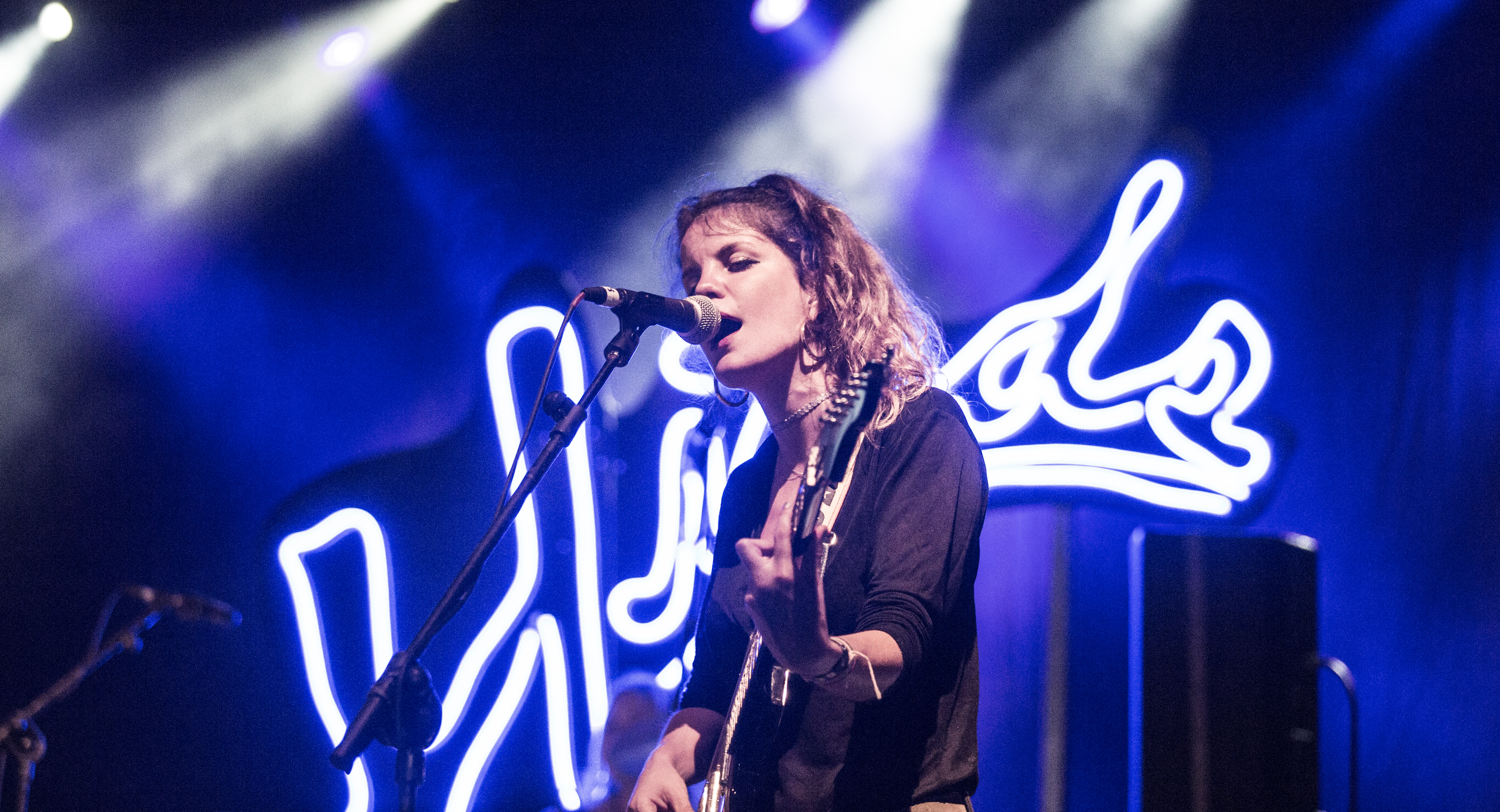 Carlotta Cosials of Hinds in Concert